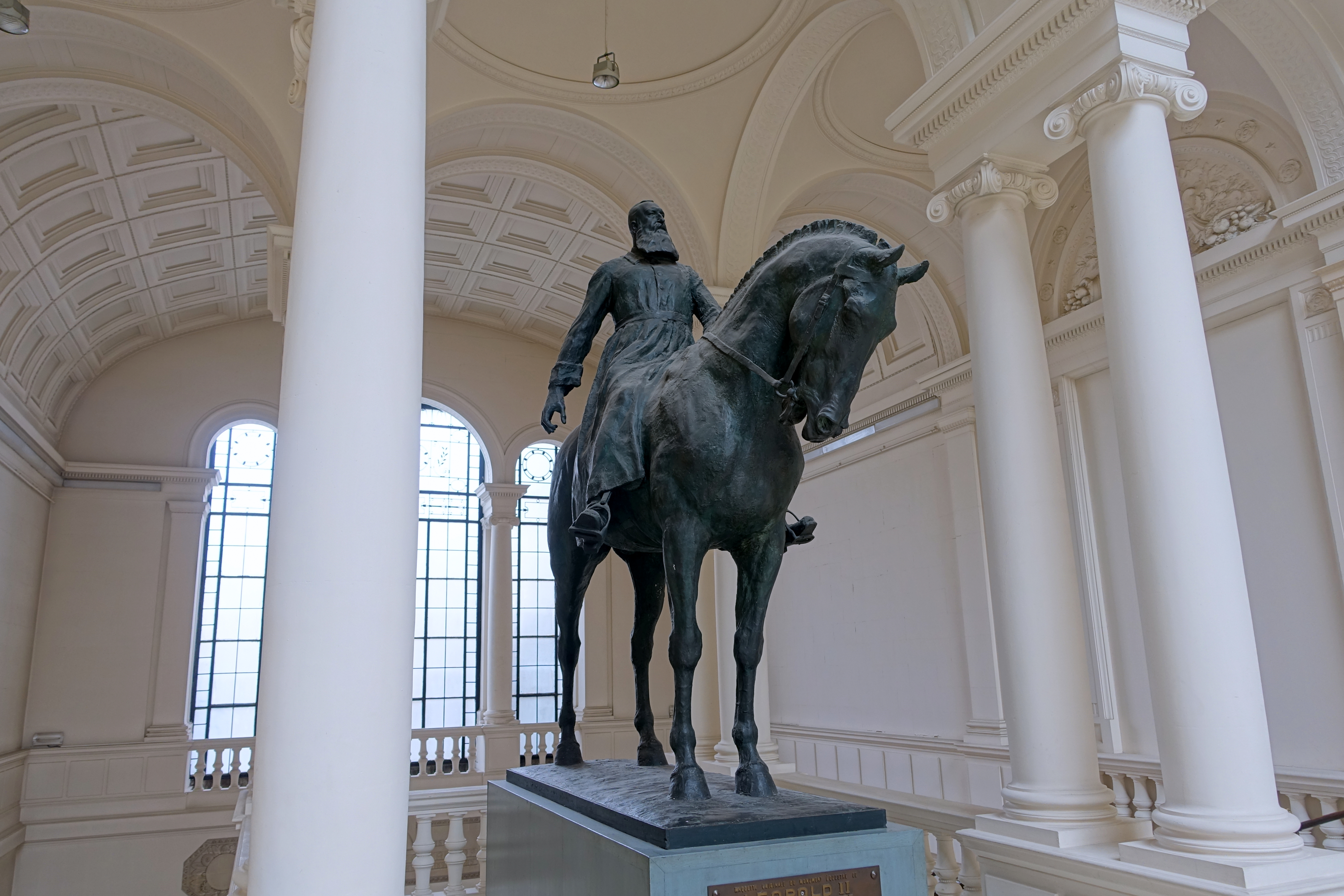 Equestrian Statue of Leopold II by Thomas Vinçotte (1850–1925) - Cinquantenaire Museum - Brussels, Belgium. This work is in the public domain because the sculptor died more than 70 years ago.